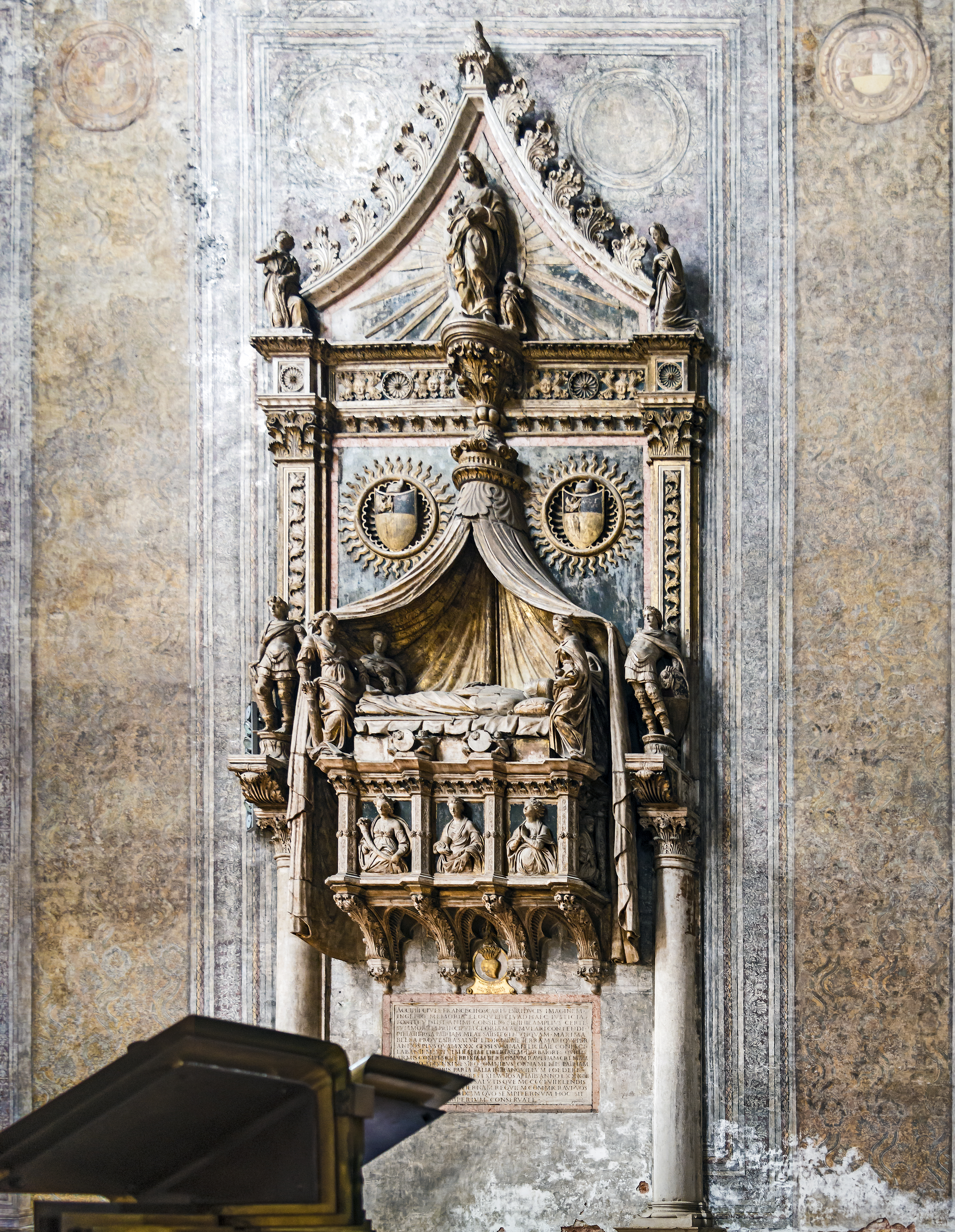 The Basilica di Santa Maria Gloriosa dei Frari. Choir, monument to Francesco Foscari sculpted by Paolo and Antonio Bregno or Niccolò di Giovanni Fiorentino.